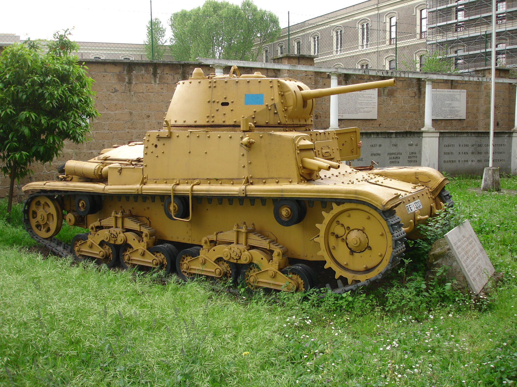 Italian Army M 13 40 tank, now exposed to Museo Storico dei Carristi (Historic Tankery Museum) in Rome, Italy.